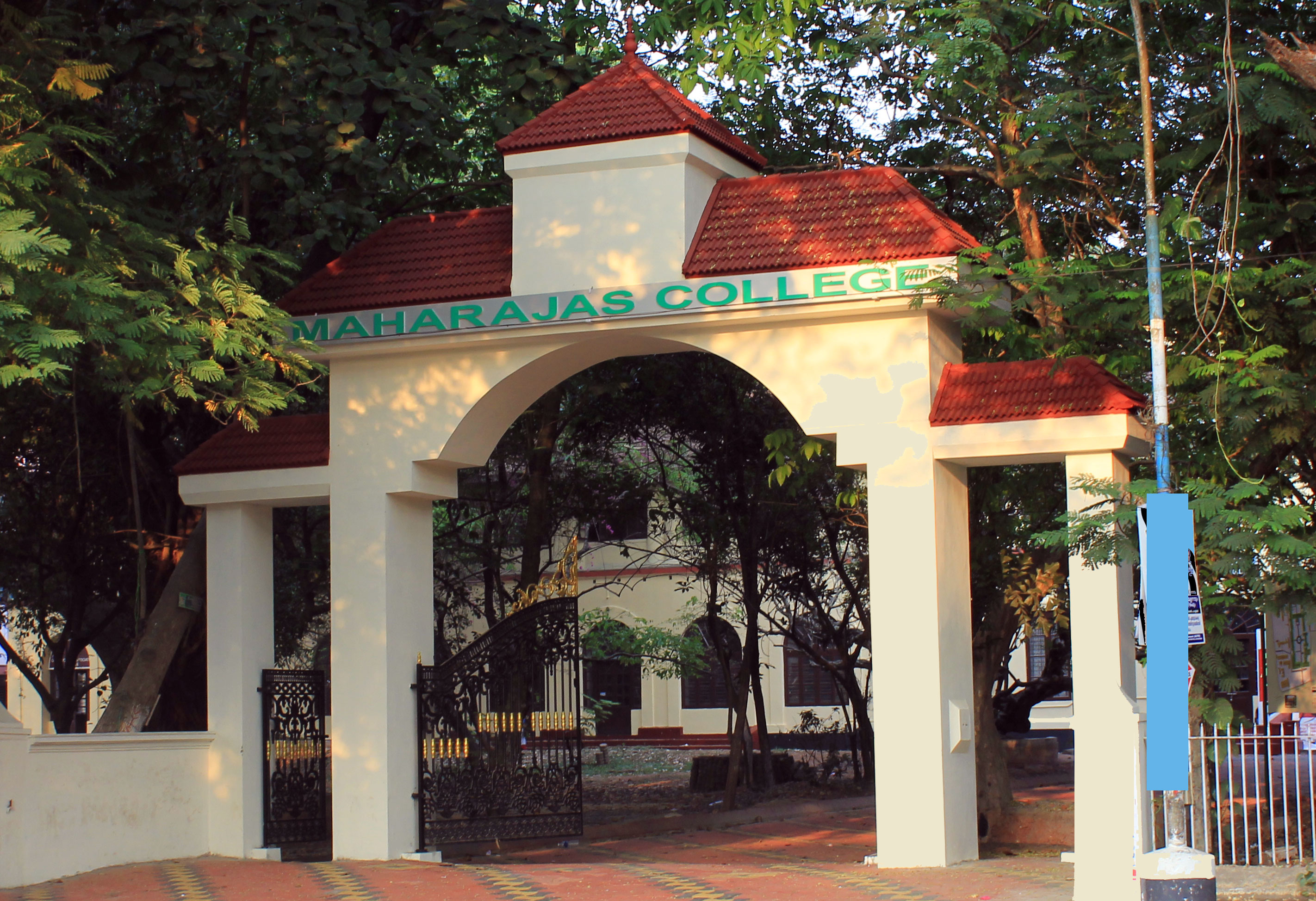 The back gate of Maharaja's College, Ernakulam